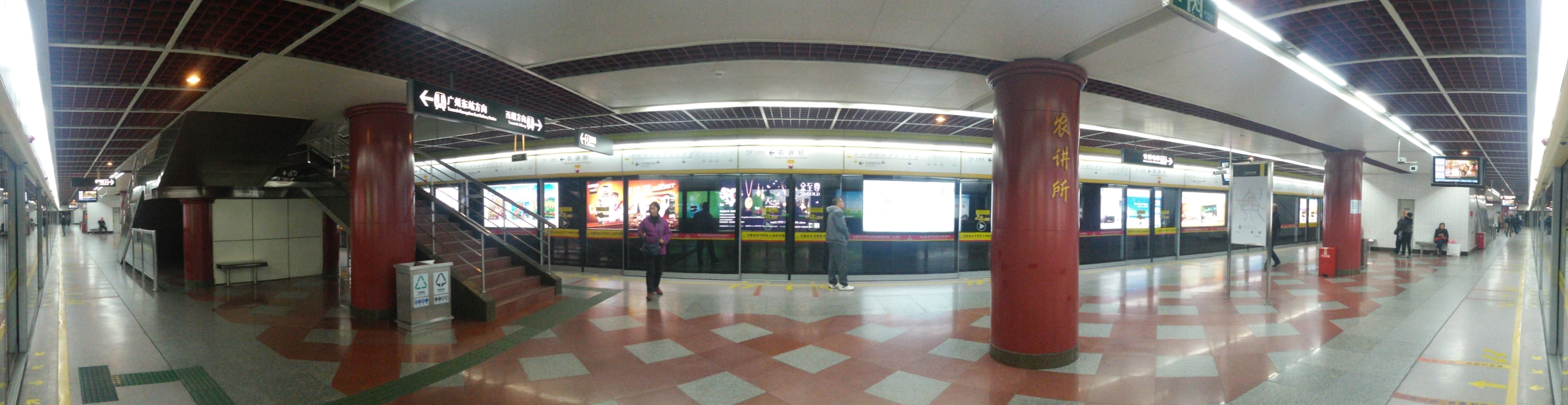 FULL SIGHT of Platform (Towards Guangzhou East Railway Station) for Peasant Movement Institute Station in Guangzhou Metro.